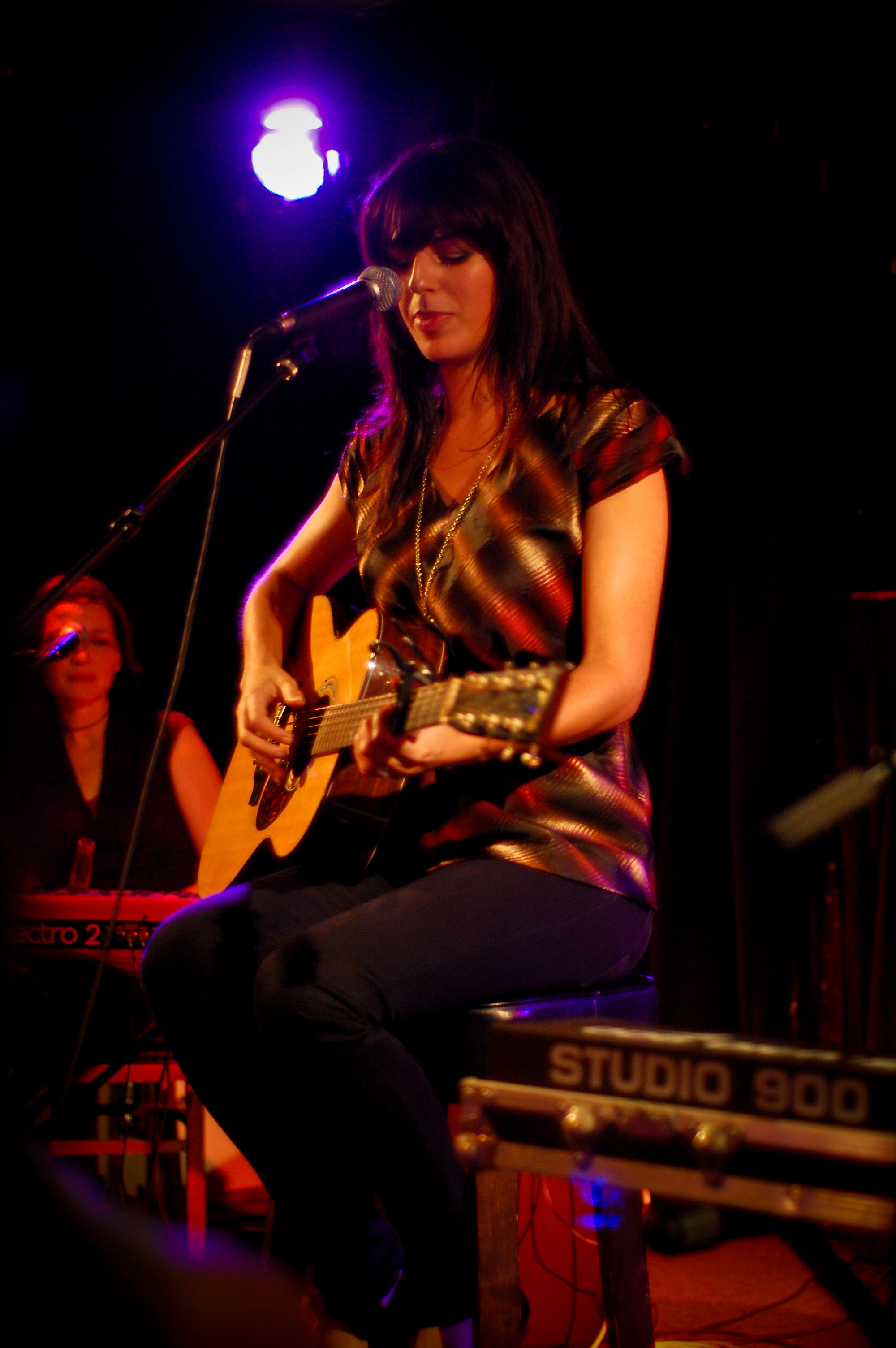 Brooke Fraser at Cafe Du Nord, San Francisco, California. Given the low light situation, my only option was shooting with my 50mm 1.8 wide open. Fortunately, I was probably at optimal distance for that lens. I took about 300 shots; only a handful were usable.